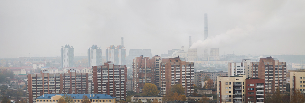 Angarskaya borough in Minsk, Belarus; Minsk thermal power station-3 on background